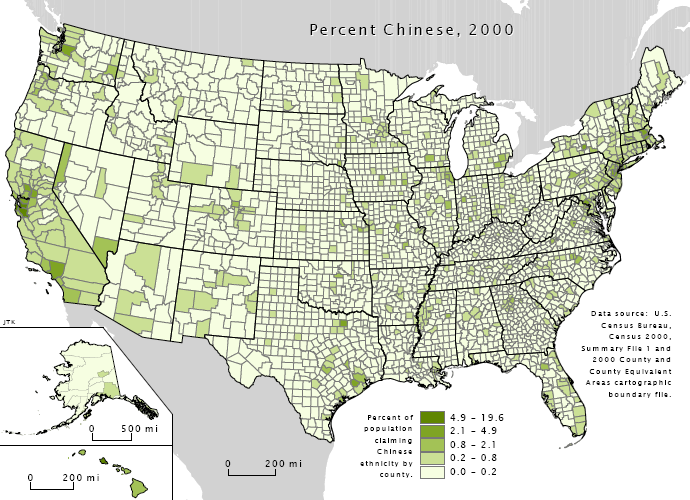 Diagram indicating Chinese American settlement in the United States. Image as based on the census 2000 by the U.S. Census Bureau. Badagnani (talk) 07:42, 23 May 2009 (UTC)